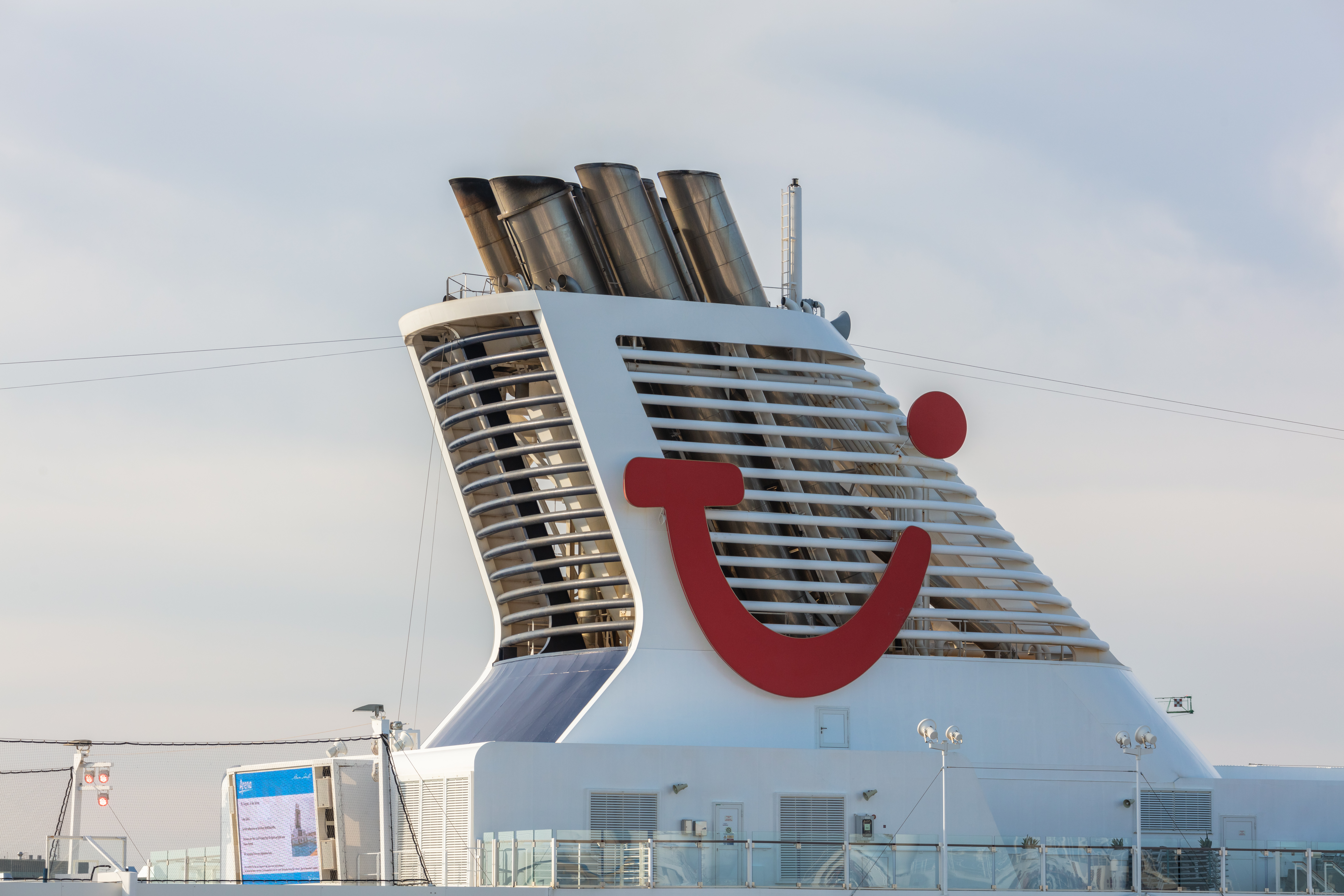 Funnel of the ship Mein Schiff 4, Kiel, Germany